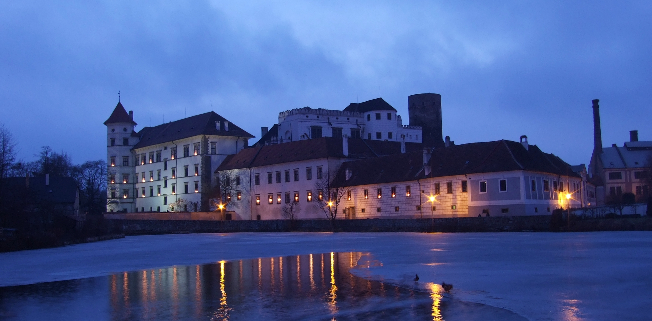 Jindřichův Hradec castle, South Bohemian Region, CZhelp